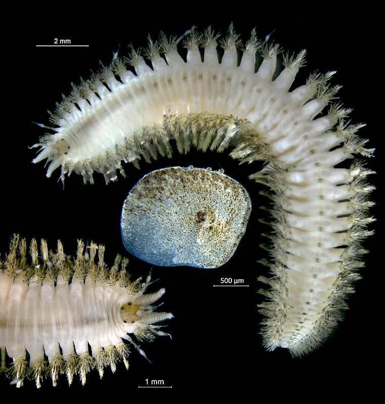 A scale worm from the Belgian part of the North Sea. Composite image.